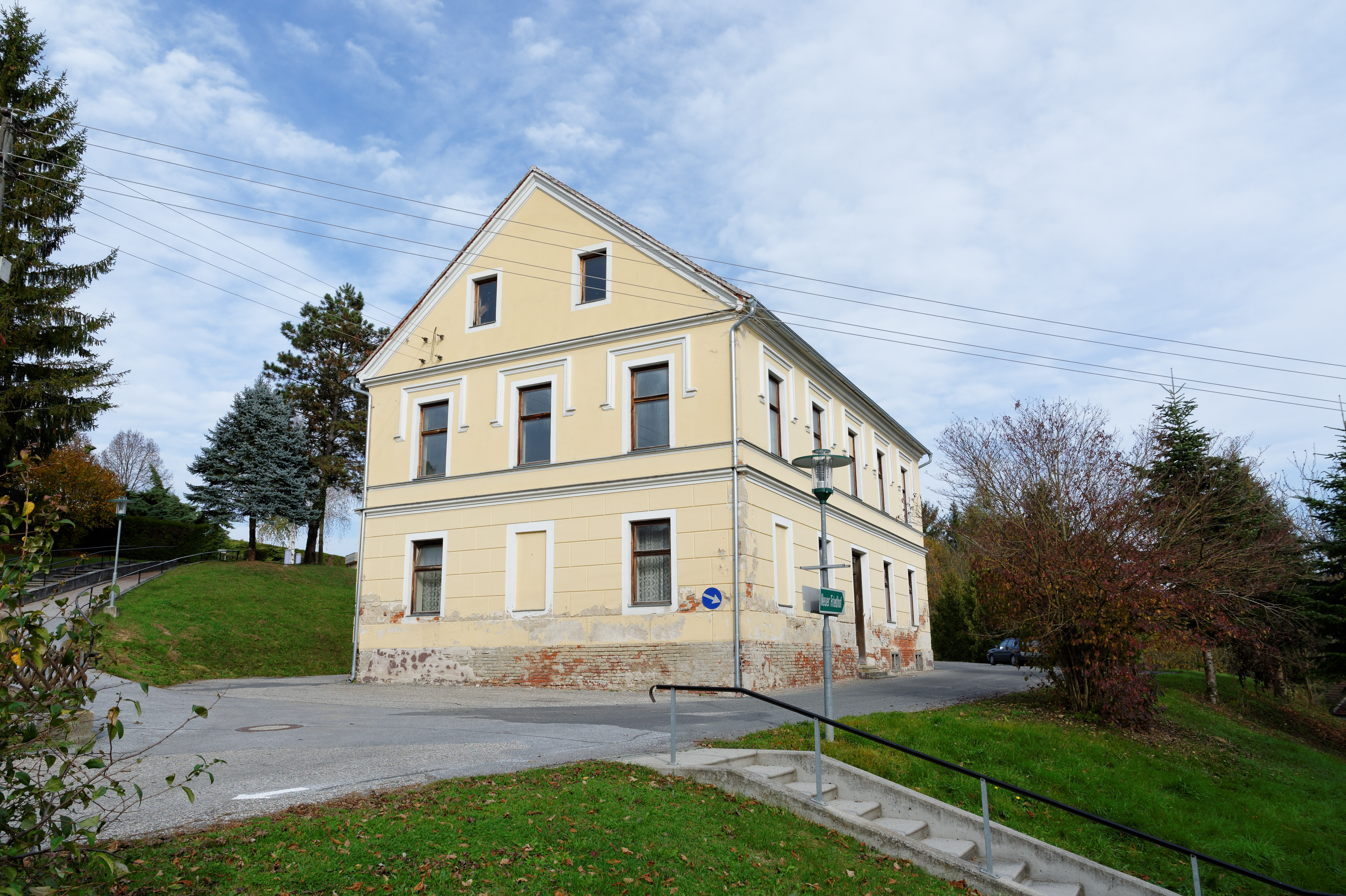 Former roman catholic school in Olbendorf, Burgenland, Austria